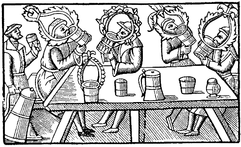 Swedish "drinking team"